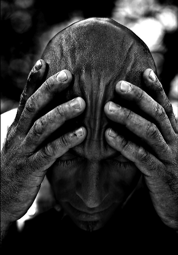 A portrait of Pasquale Montemurro by Alberto Terrile, 2010.